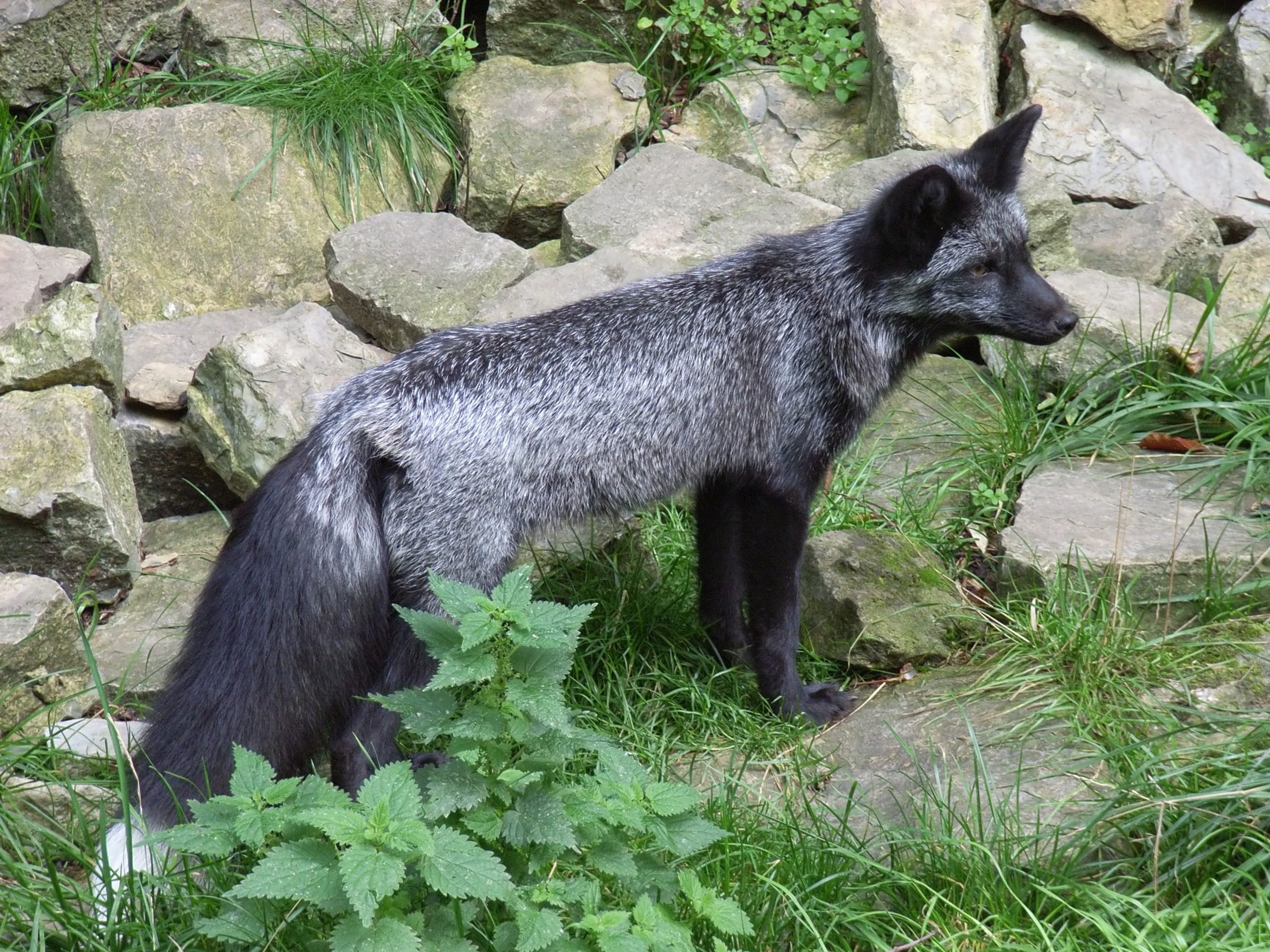 Silver fox